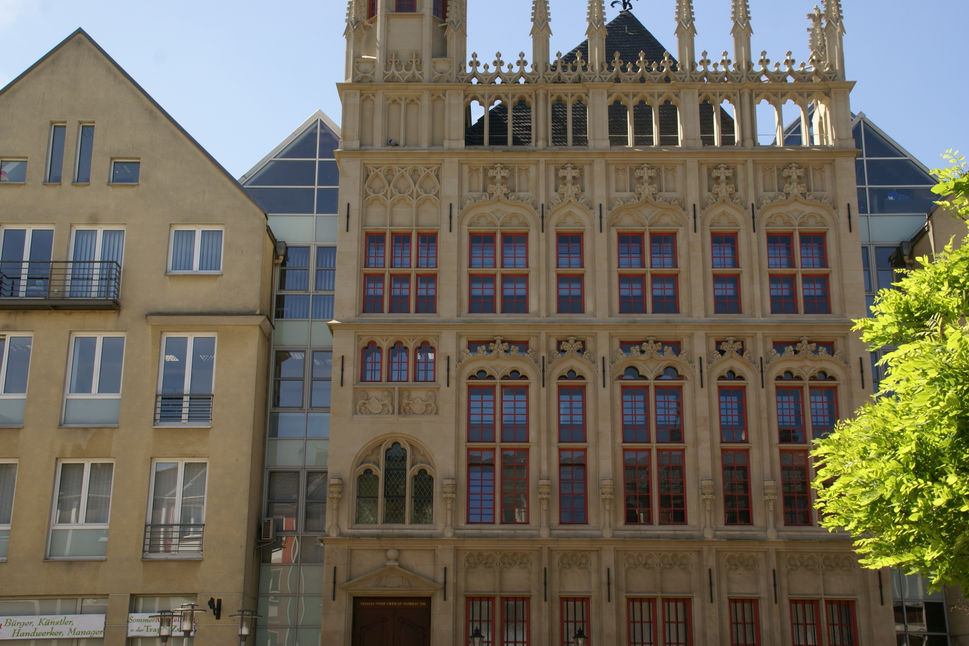 Rathaus (City Council) in Wesel, Germany - The facade was recently reconstructed after the old builing that was destroyed during WW II